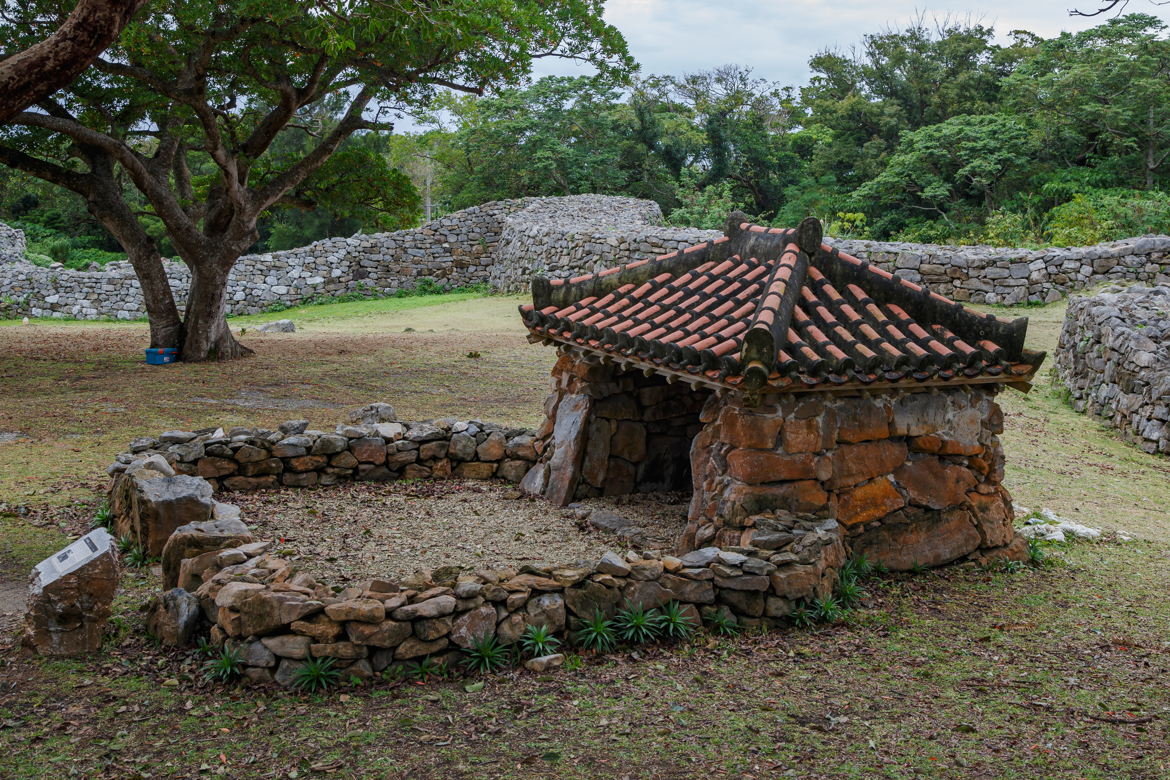 Nakijin, Okinawa, Japan: Fui Dunchi Shrine at Nakijin Castle. During the religious events of Imadomari, the Noro Priestesses of Nakijin offer prayers.